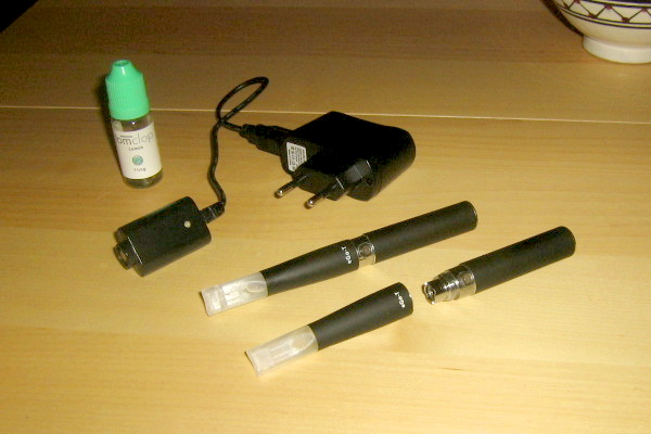 Electronic cigarette (Ego-T) with charger and refill bottle.